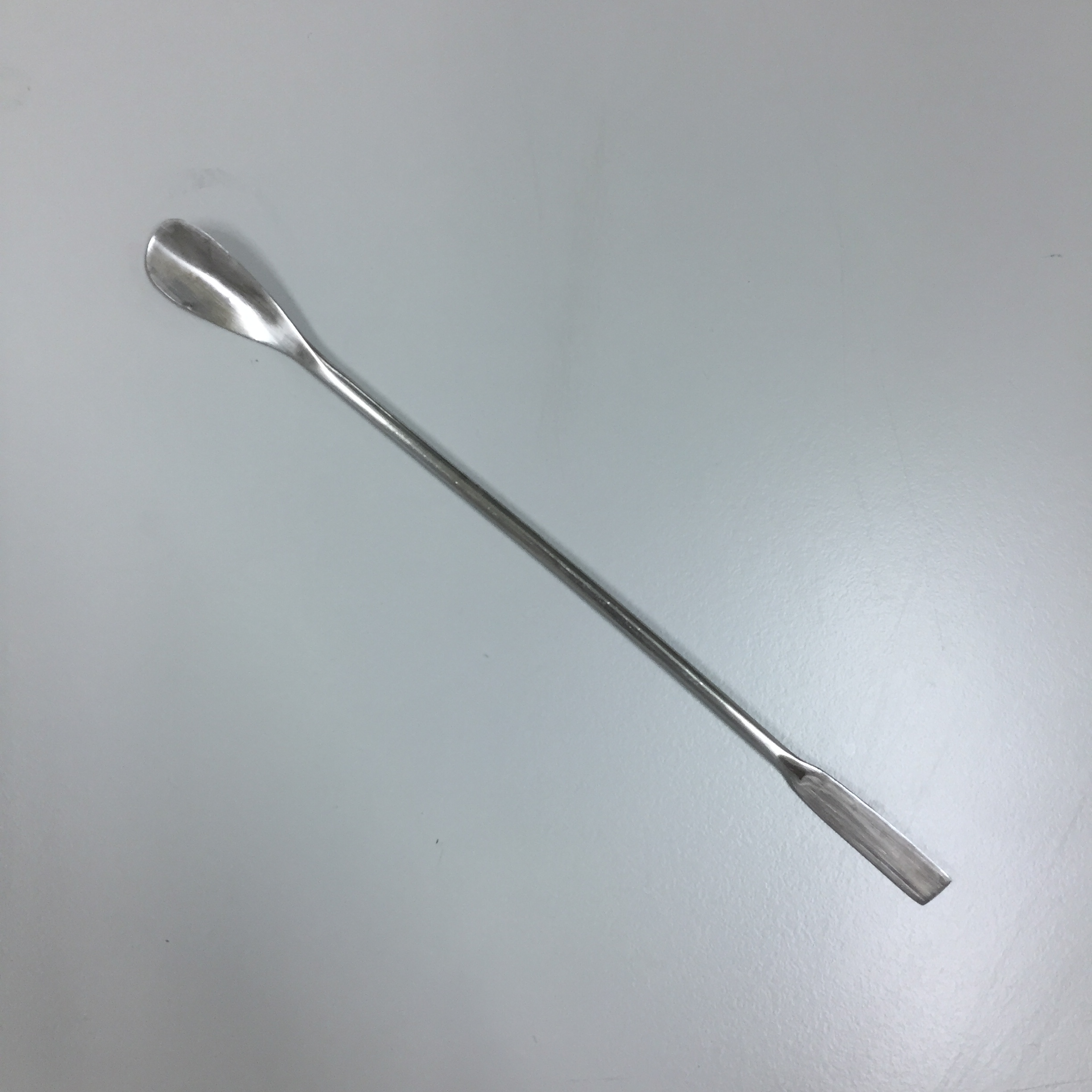 A Standard Laboratory Spatula